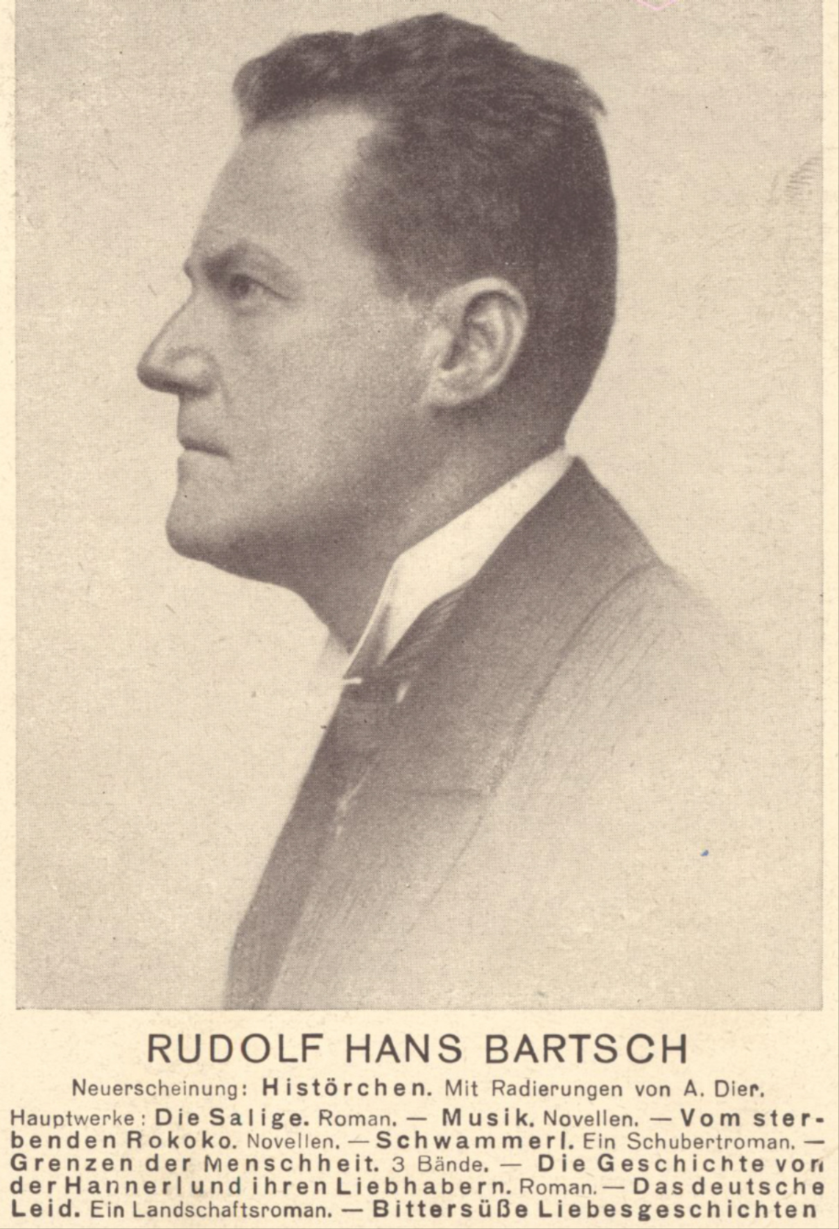 Rudolf Hans Bartsch (1873-1952), Austrian writer. Promotional postcard dating from 1925 since his book "Histörchen" (1925) is explicitly mentioned as his latest, newly published work.